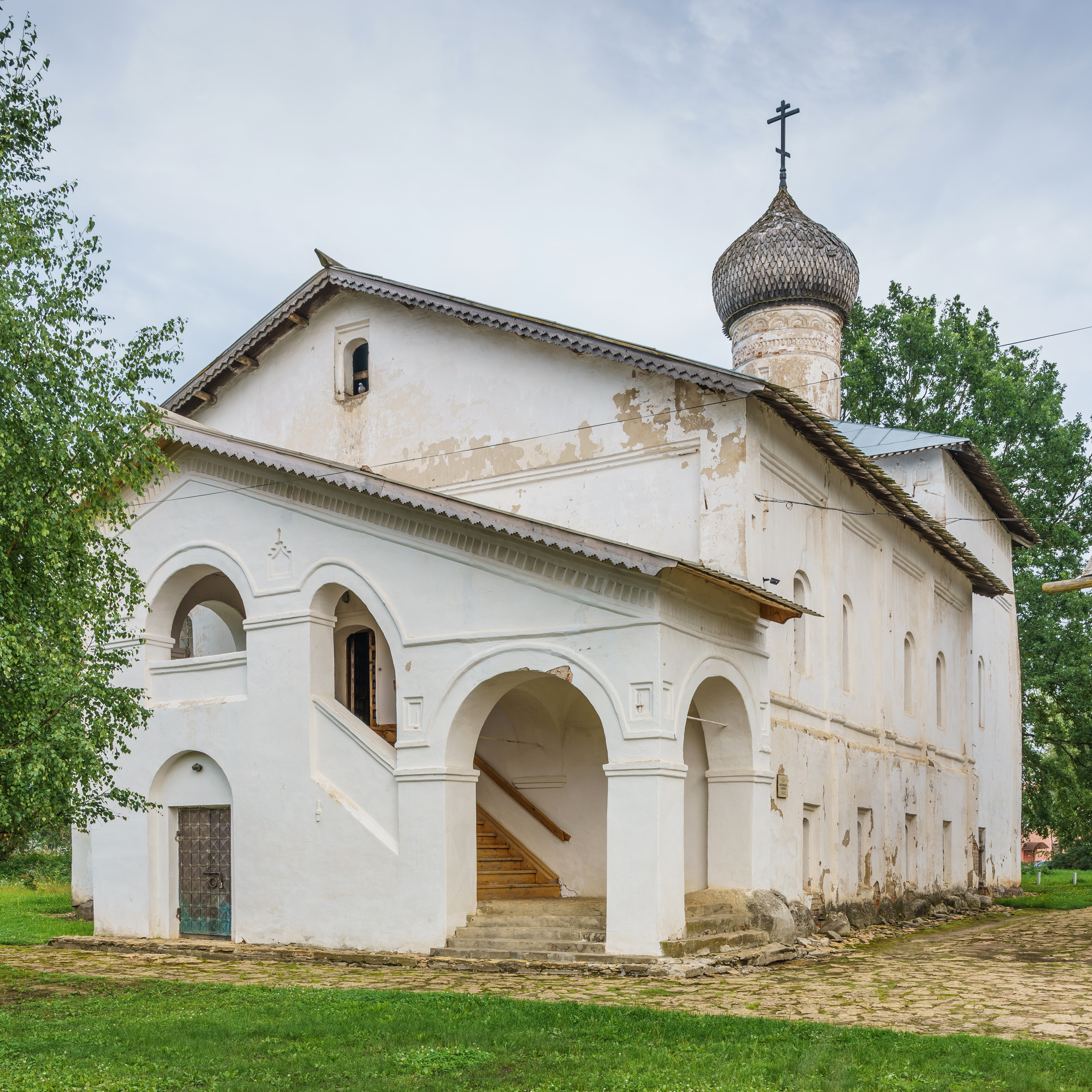 Former Spaso-Preobrazhensky Monastery in Staraya Russa, Novgorod Oblast, Russia